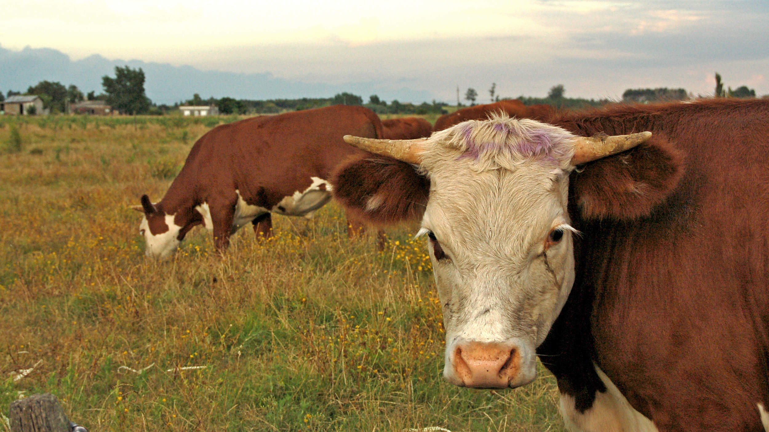 Hereford cattle in a Uruguayan farm.